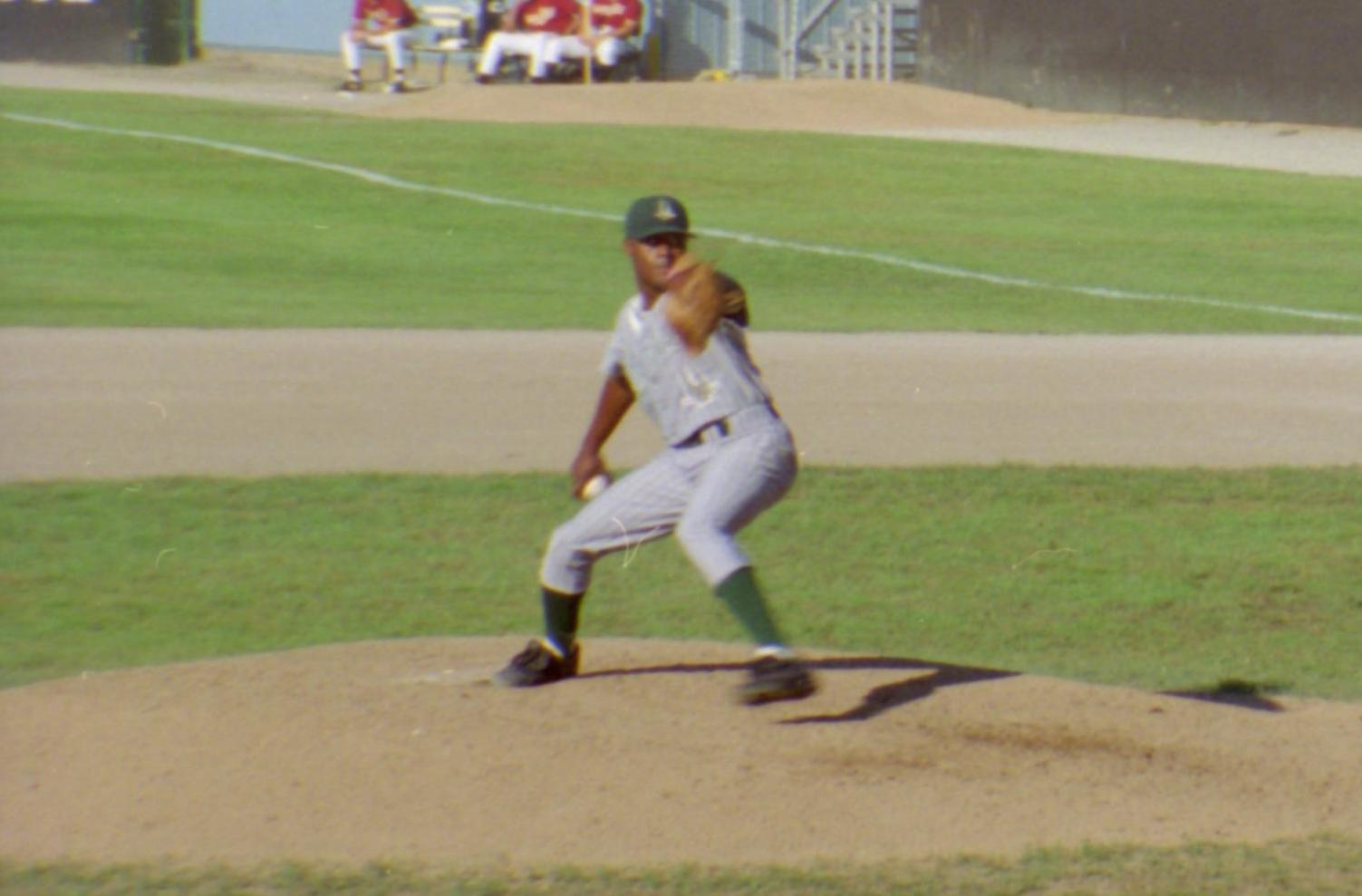 Chuck Smith delivers a pitch for the South Bend Silver Hawks against the Michigan Battle Cats during a 1995 game in Battle Creek, Michigan.